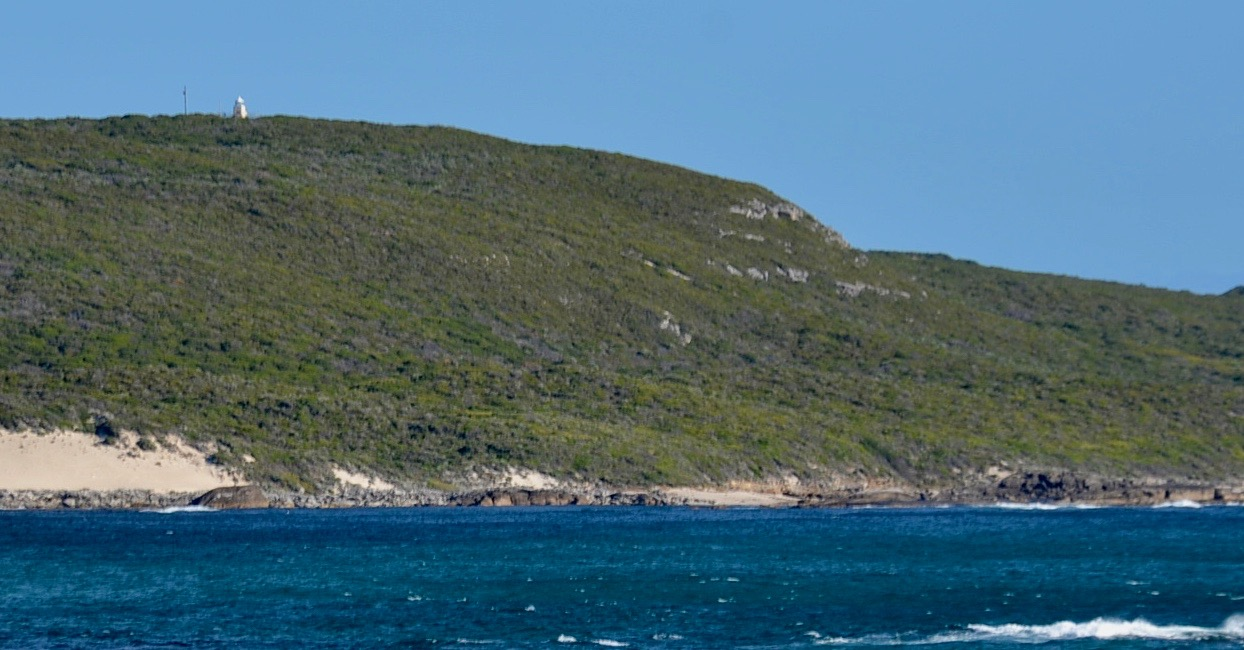 w: Hamelin Bay, Western Australia - the new land based lighthouse on the hill